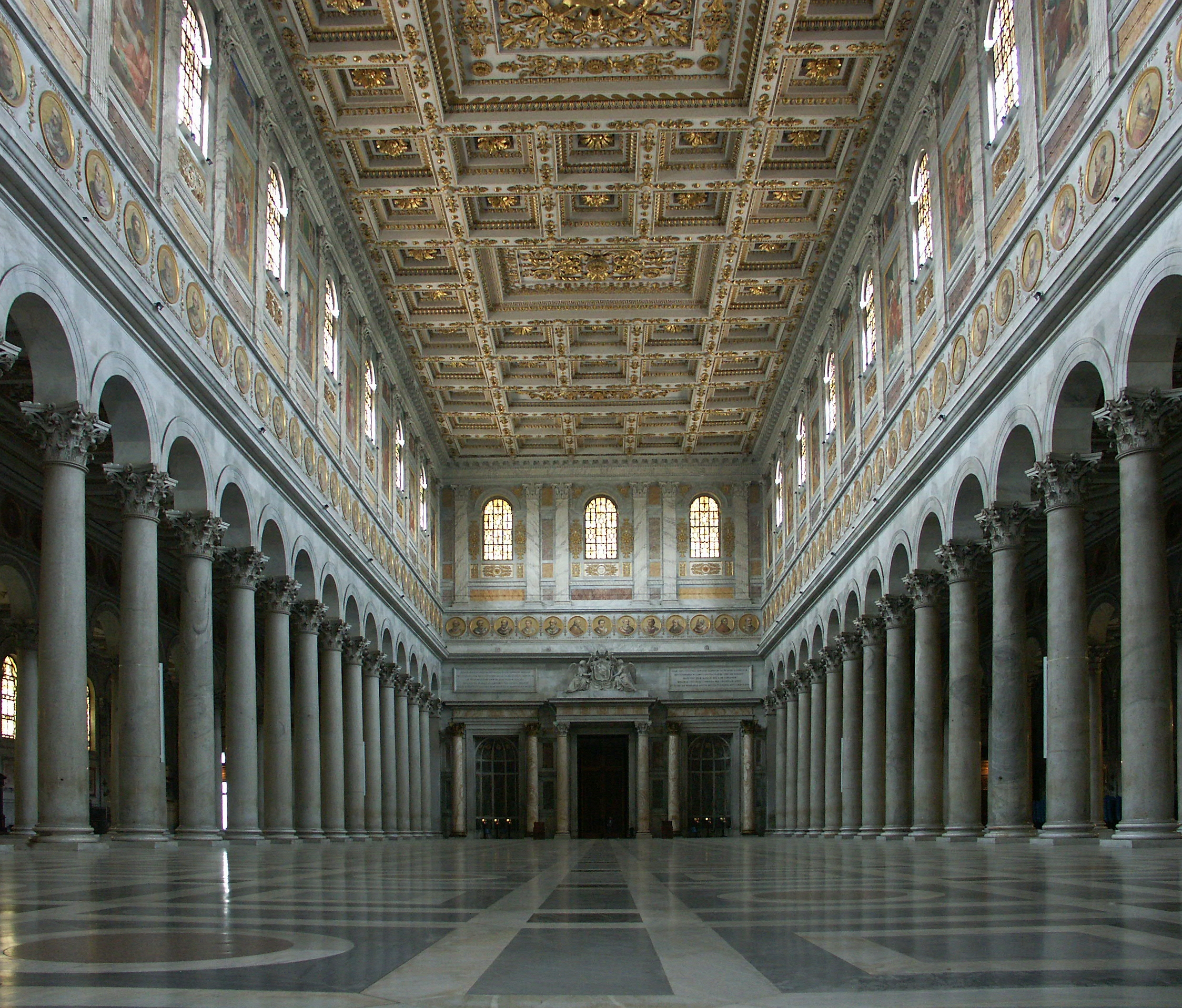 Rom, Interior of Basilica of Saint Paul Outside the Walls